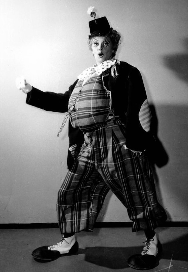 Publicity photo of Lucille Ball from the television program The Lucy Show. In this episode, Lucy and Viv think they can make good money by starting their own children's birthday party business.